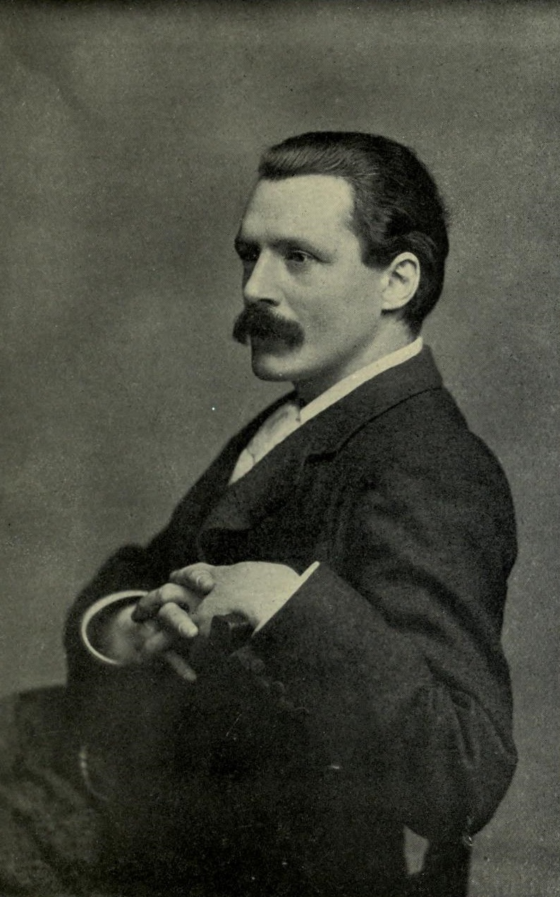 Picture of George Gissing